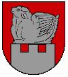 Coat of arms of Greinbach, Styria